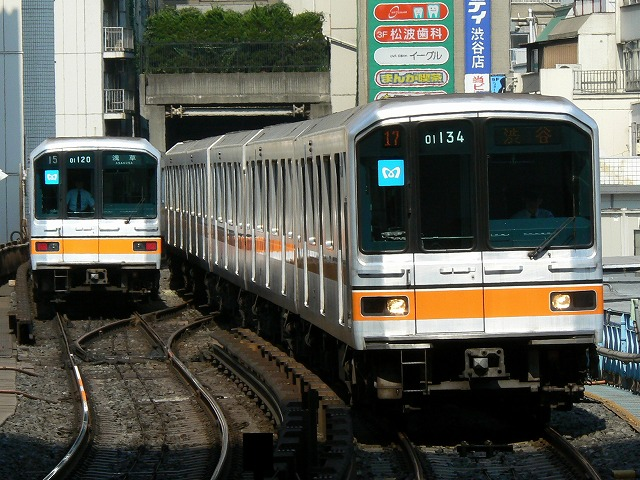 the Tokyo Metro 01 series train running near Shibuya Station, the Tokyo Metro Ginza Line